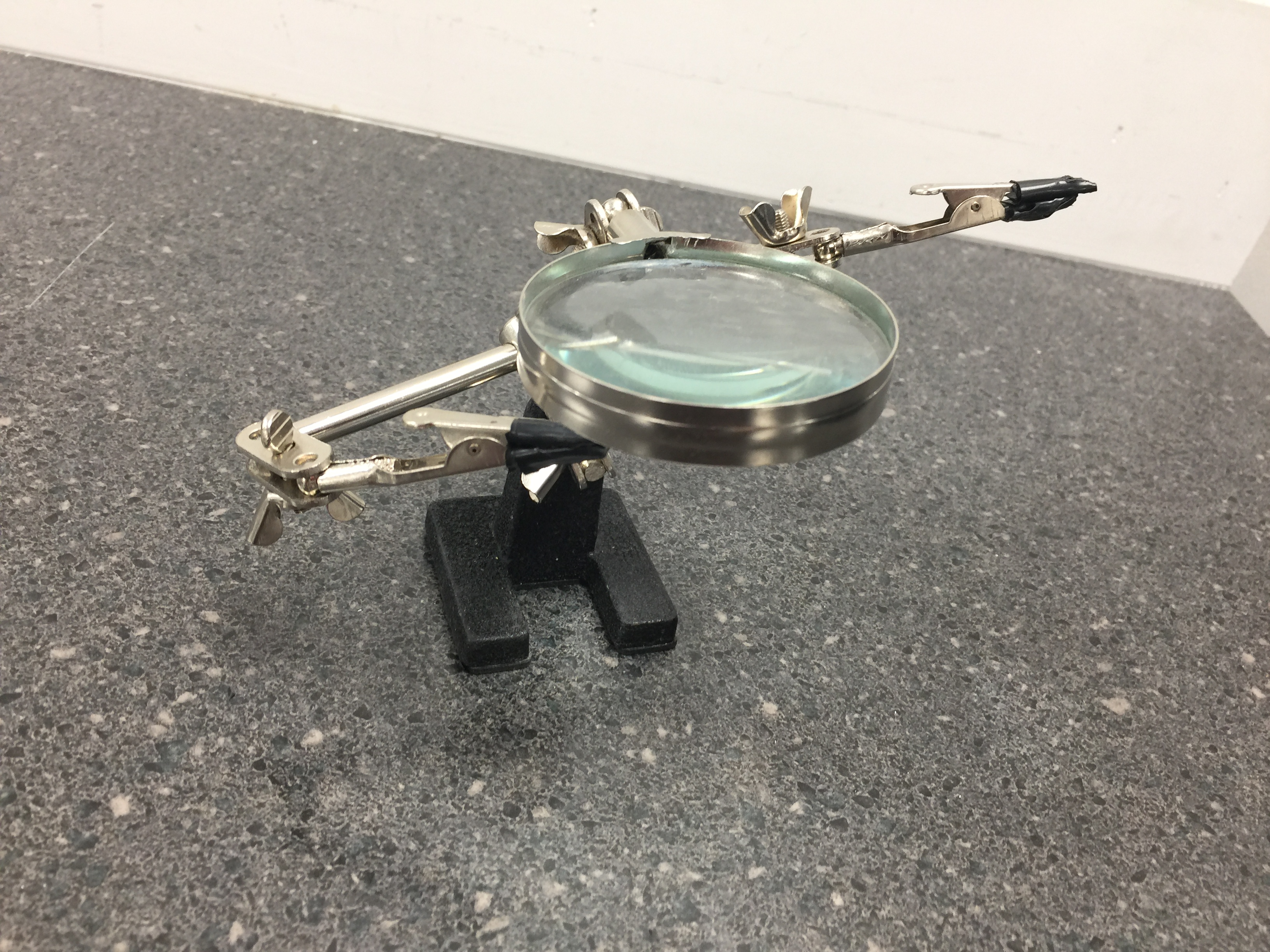 A sample of the Dabbing Hands known now as a Helping Hand in it's original configuration